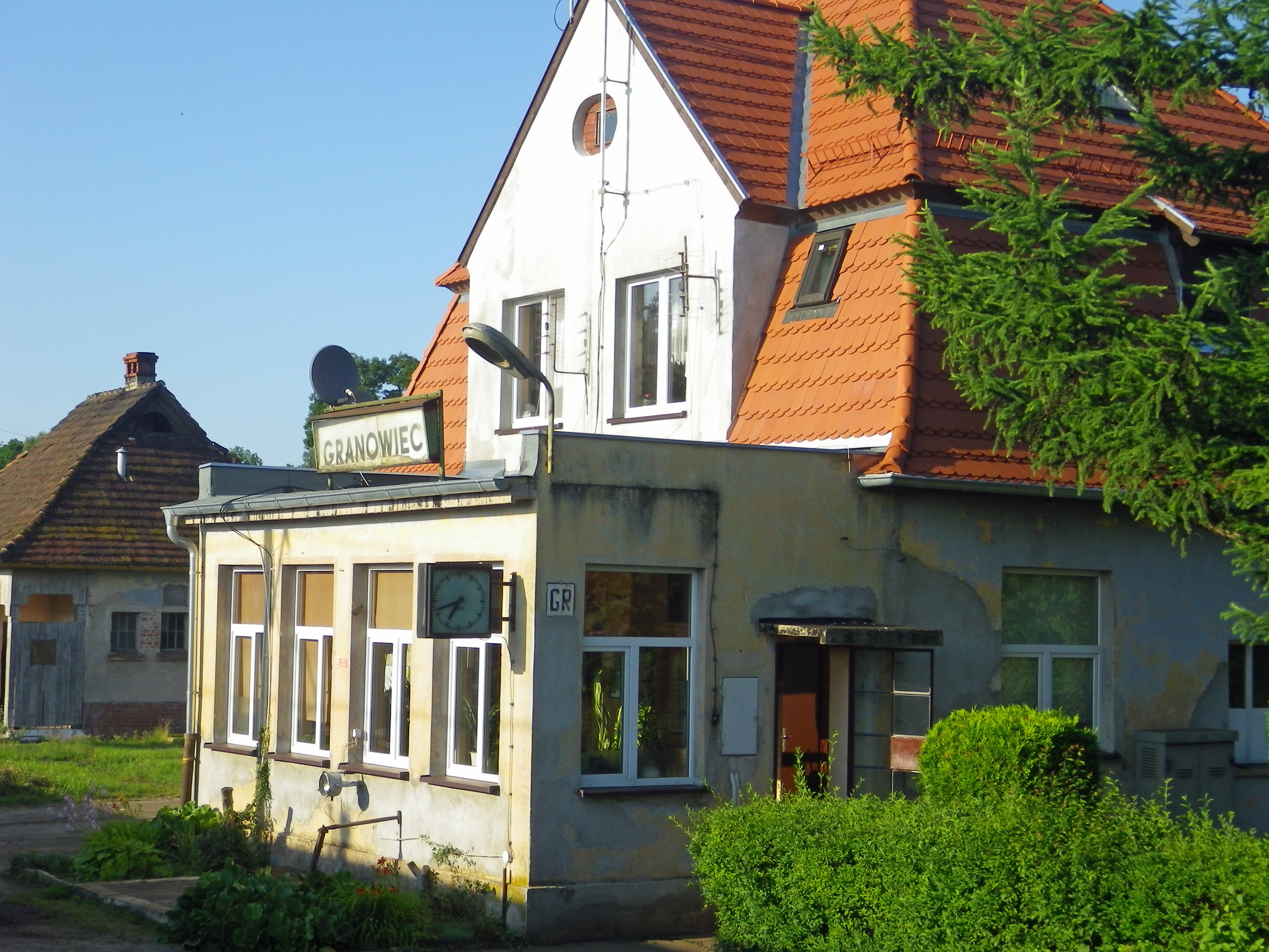 Train station in Granowiec (Greater Poland Voivodeship)